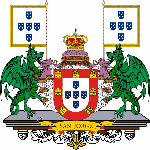 A contemporary coat of arms of the Royal House of Portugal drawn up by, the genius, Nuno A. G. Bandeira